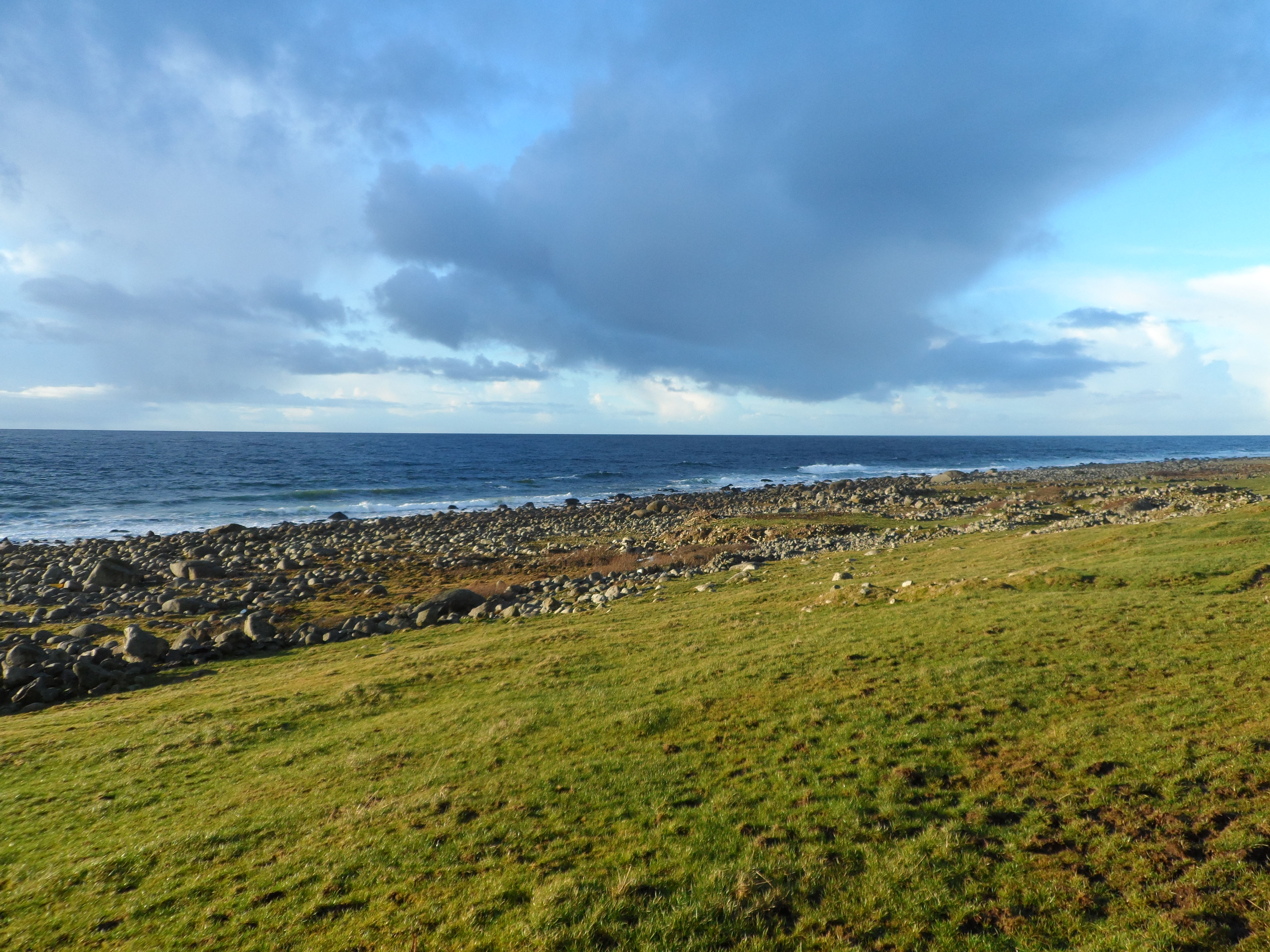 Norwegian: Kystparti frå Jæren, Odland i Hå kommune